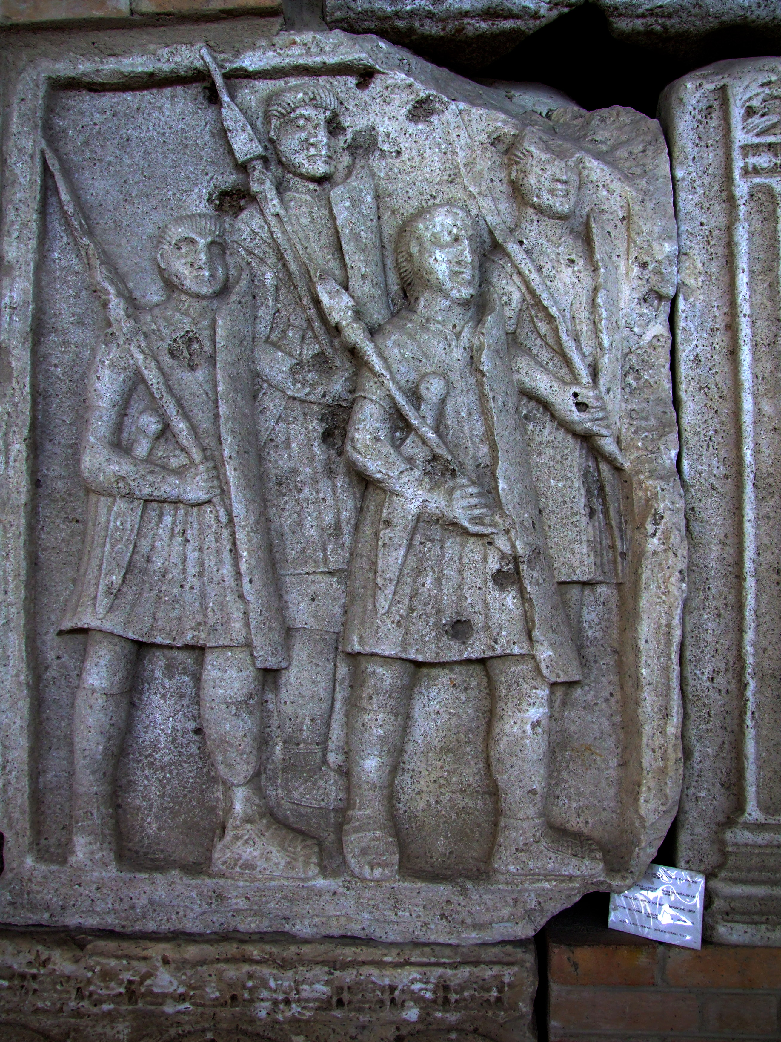 XXXIX Marching "offduty" soldiers